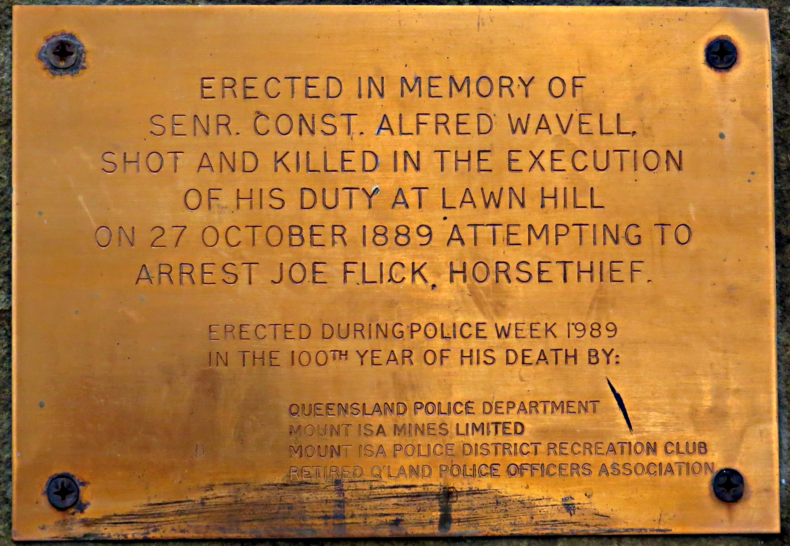 Memorial plaque honouring Senior Constable Alfred Wavell, killed in the line of duty at Lawn Hill (now Boodjamulla National Park), Queensland, Australia.